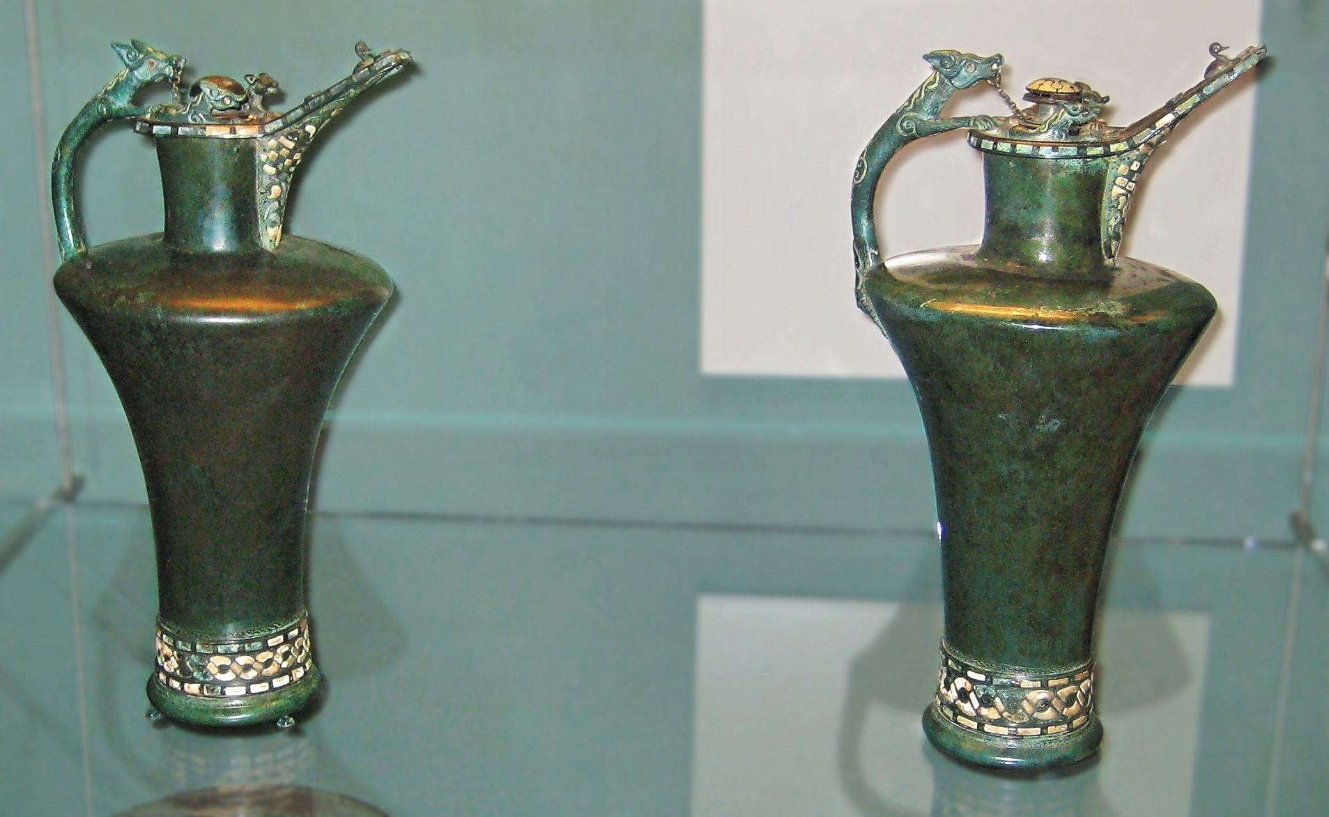 Basse Yutz Flagons, Basse-Yutz, Lorraine, France, Iron Age, about 450 BC.